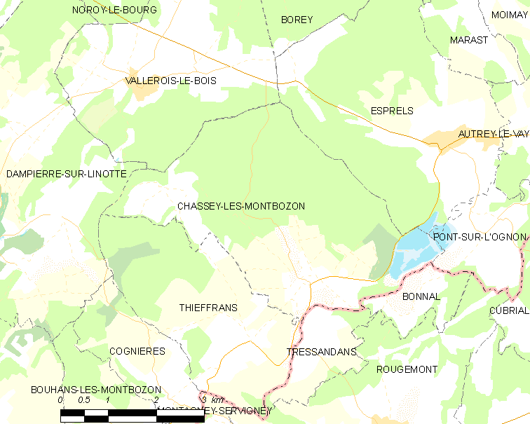 Map of French municipality